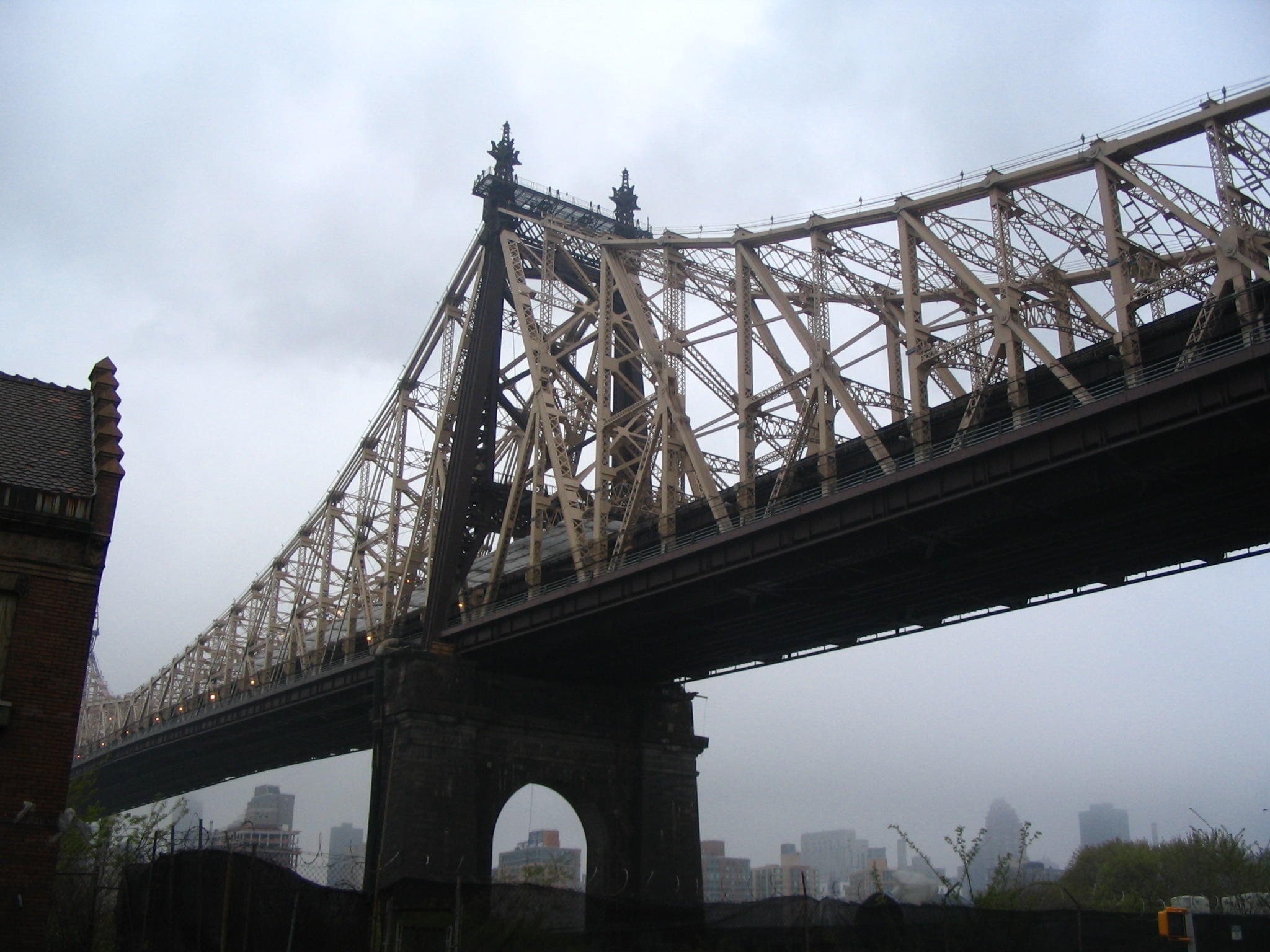 Queensboro Bridge from Long Island City